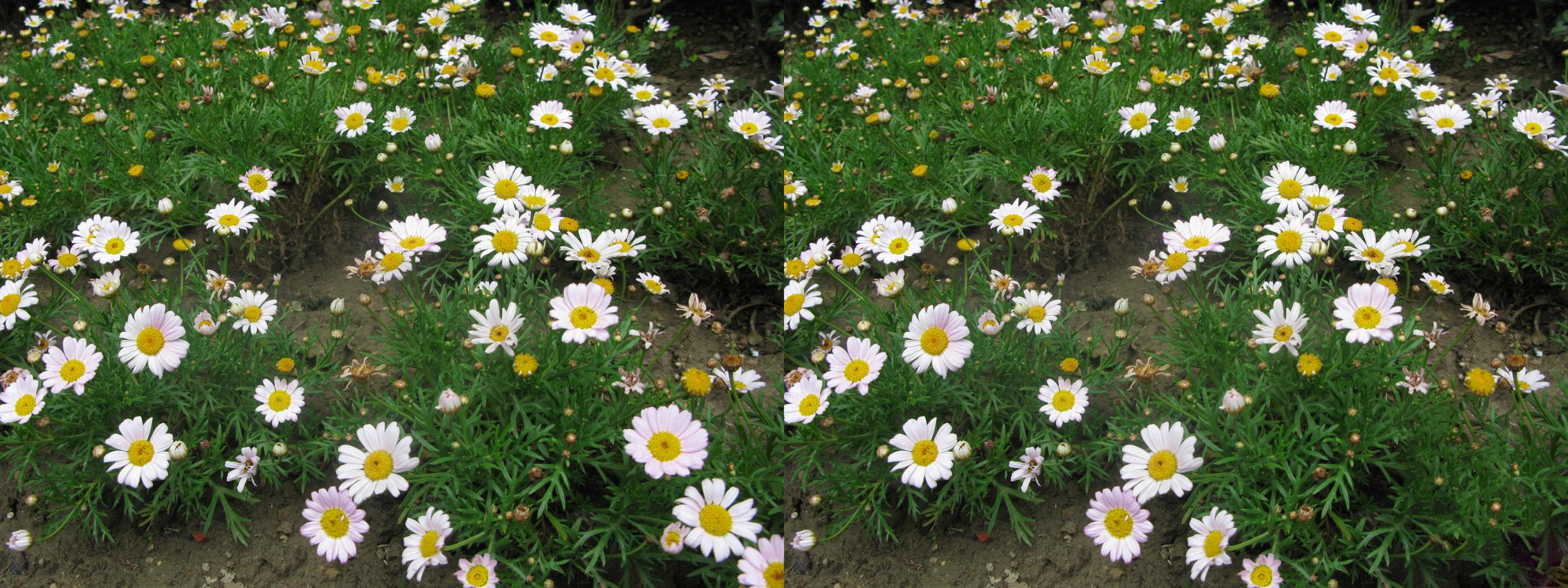 This picture is from my camera, used to demo the PatchMatch algorithm